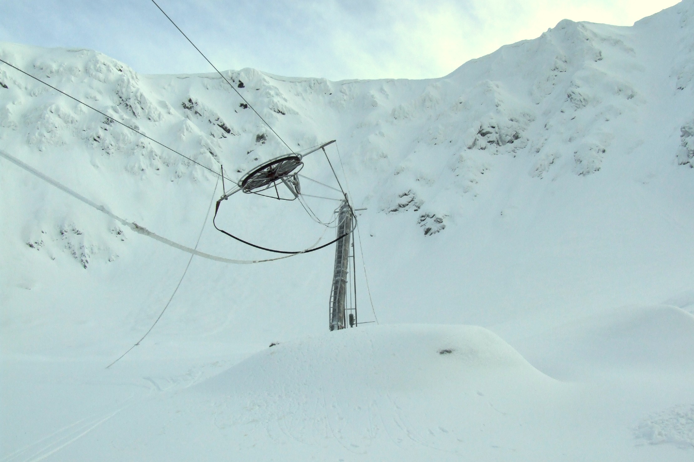 Skilift in Dereše cirque, Low Tatras, Slovakia